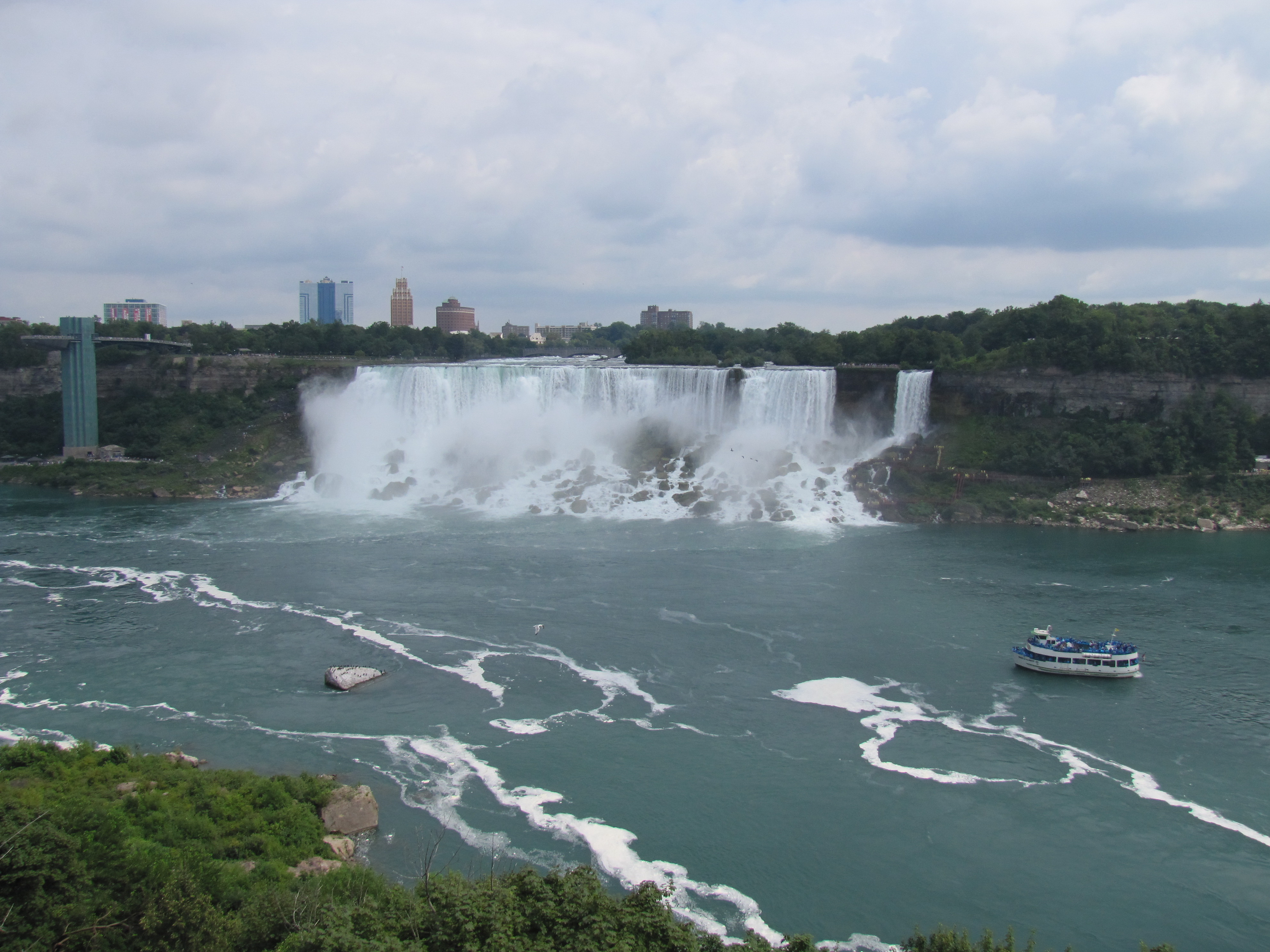 American Falls, Niagara Falls, Ontario, Canada